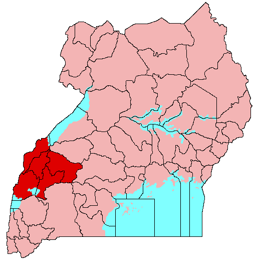 Ugandan kingdom of Toro in original size Created by editing picture